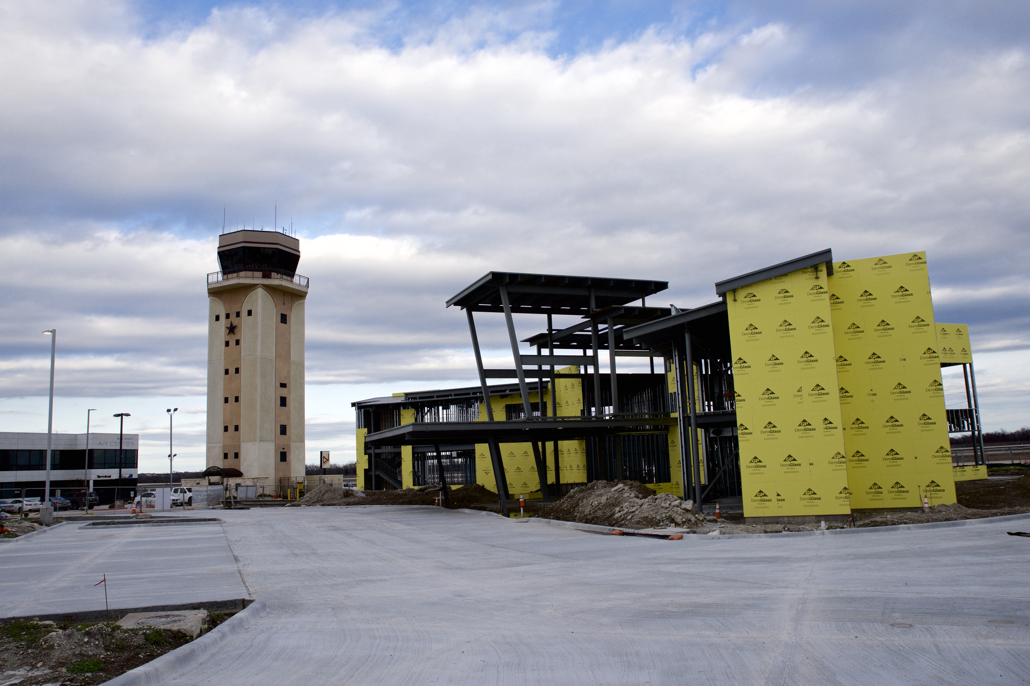 McKinney National Airport in January 2020, showing the dedicated control tower and under-construction new terminal. The existing terminal is visible to the far left.